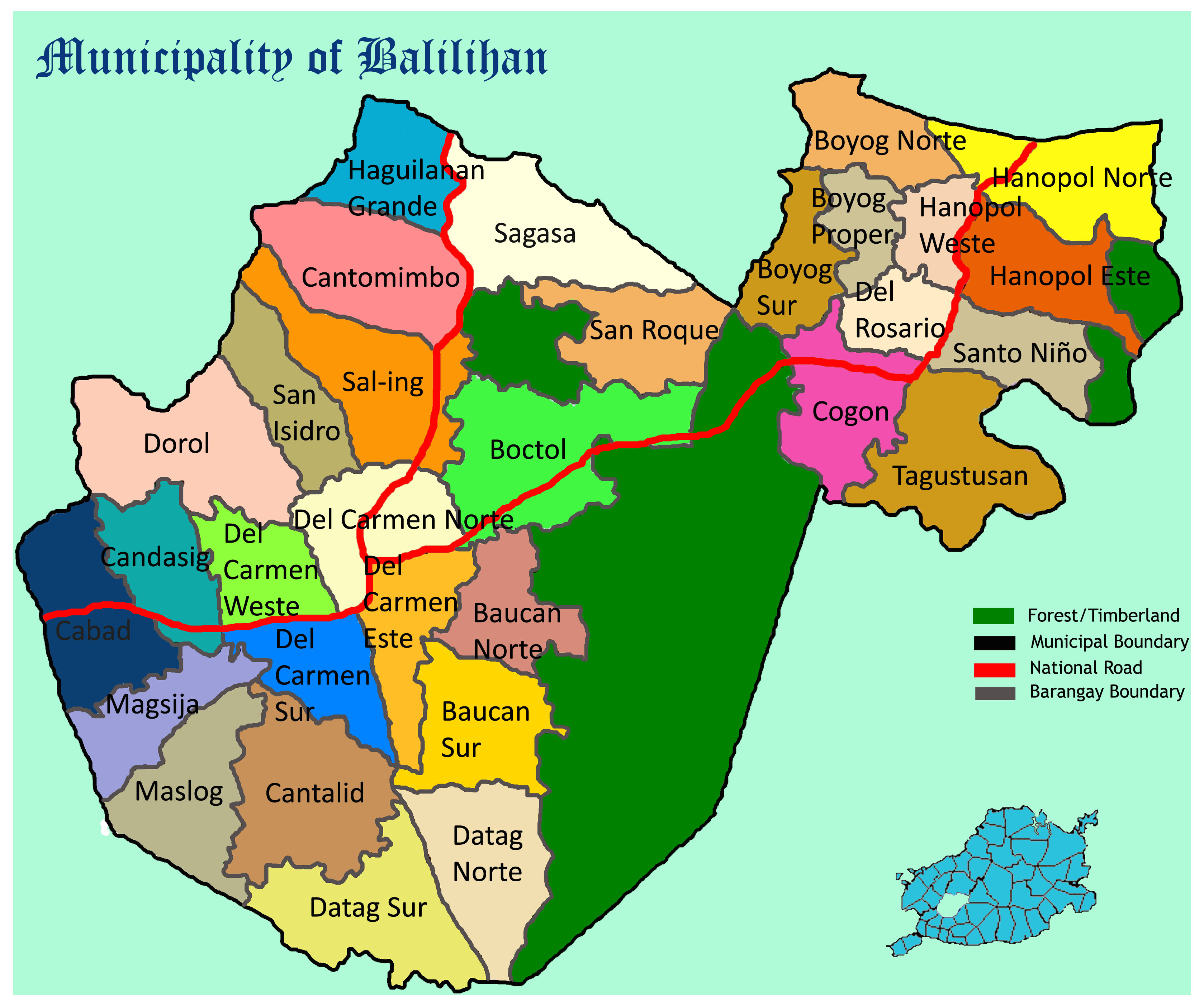 Map of Balilihan